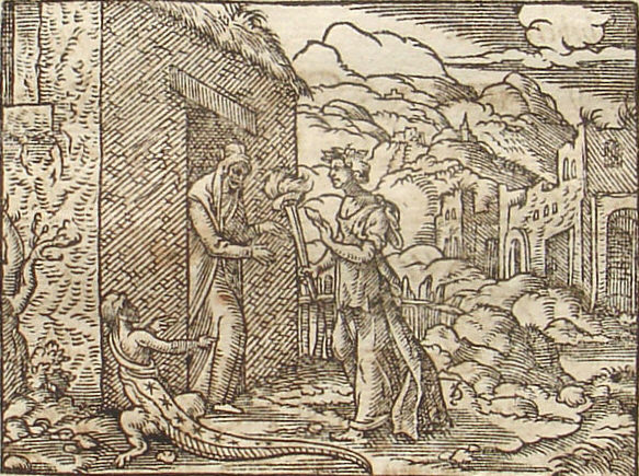 Ceres is mocked by a boy, which is turned into a star lizard (Ovid. Met. V, 449ff). Engraving by Virgil Solis, 1581.